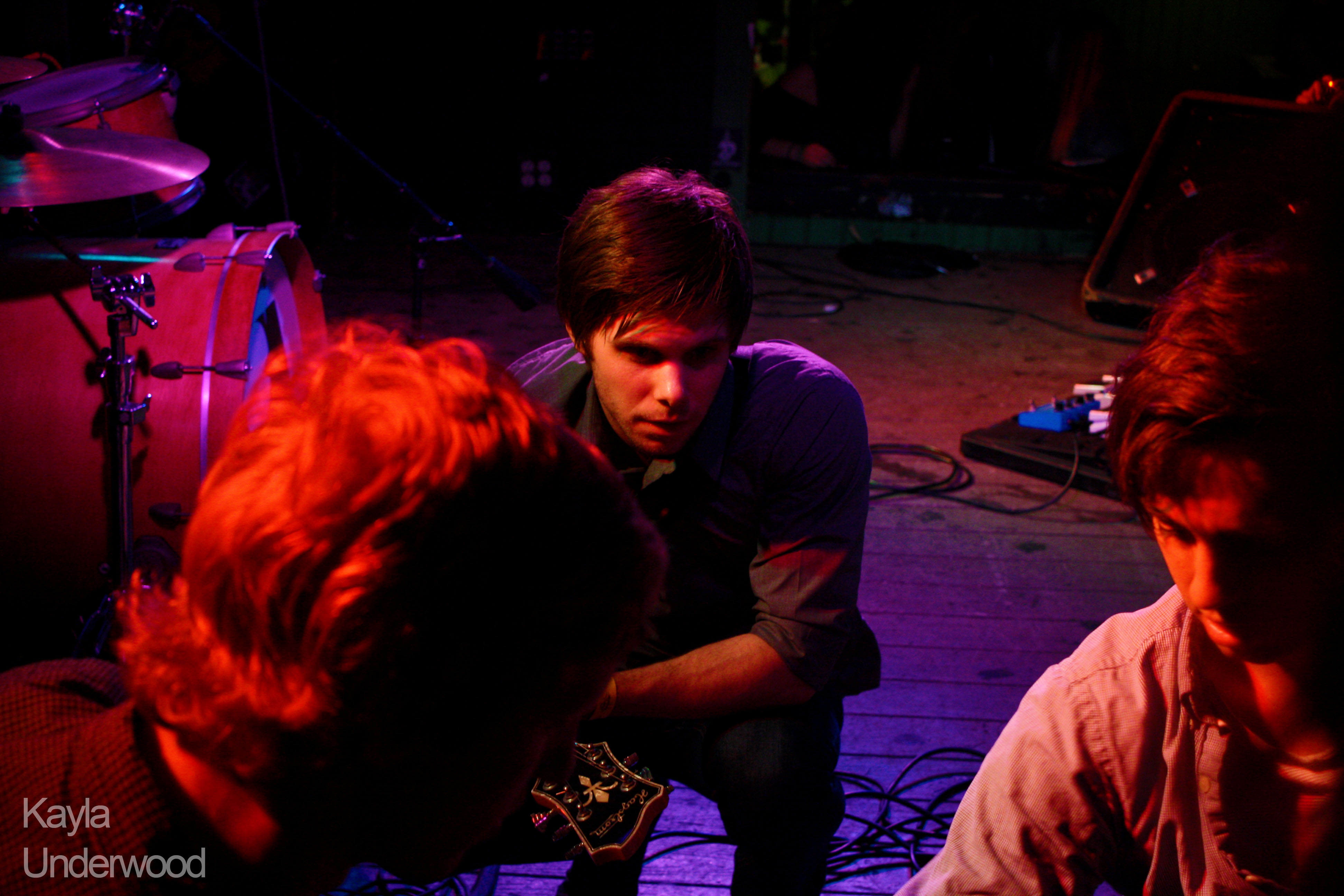 Chain Reaction 2/11/10 TUMBLR | FACEBOOK